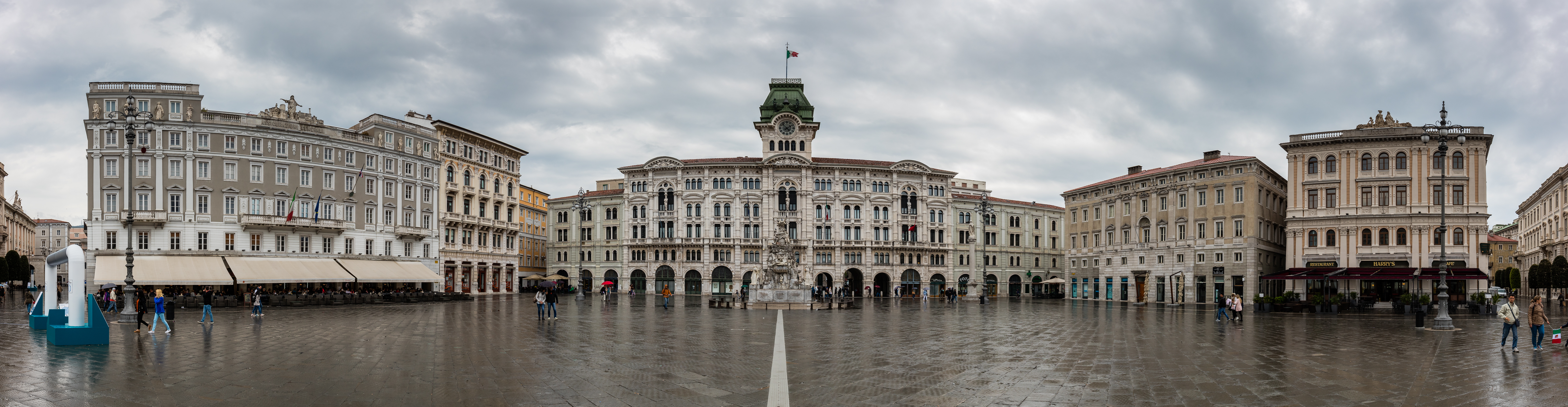 Unity Square, Trieste, Italy